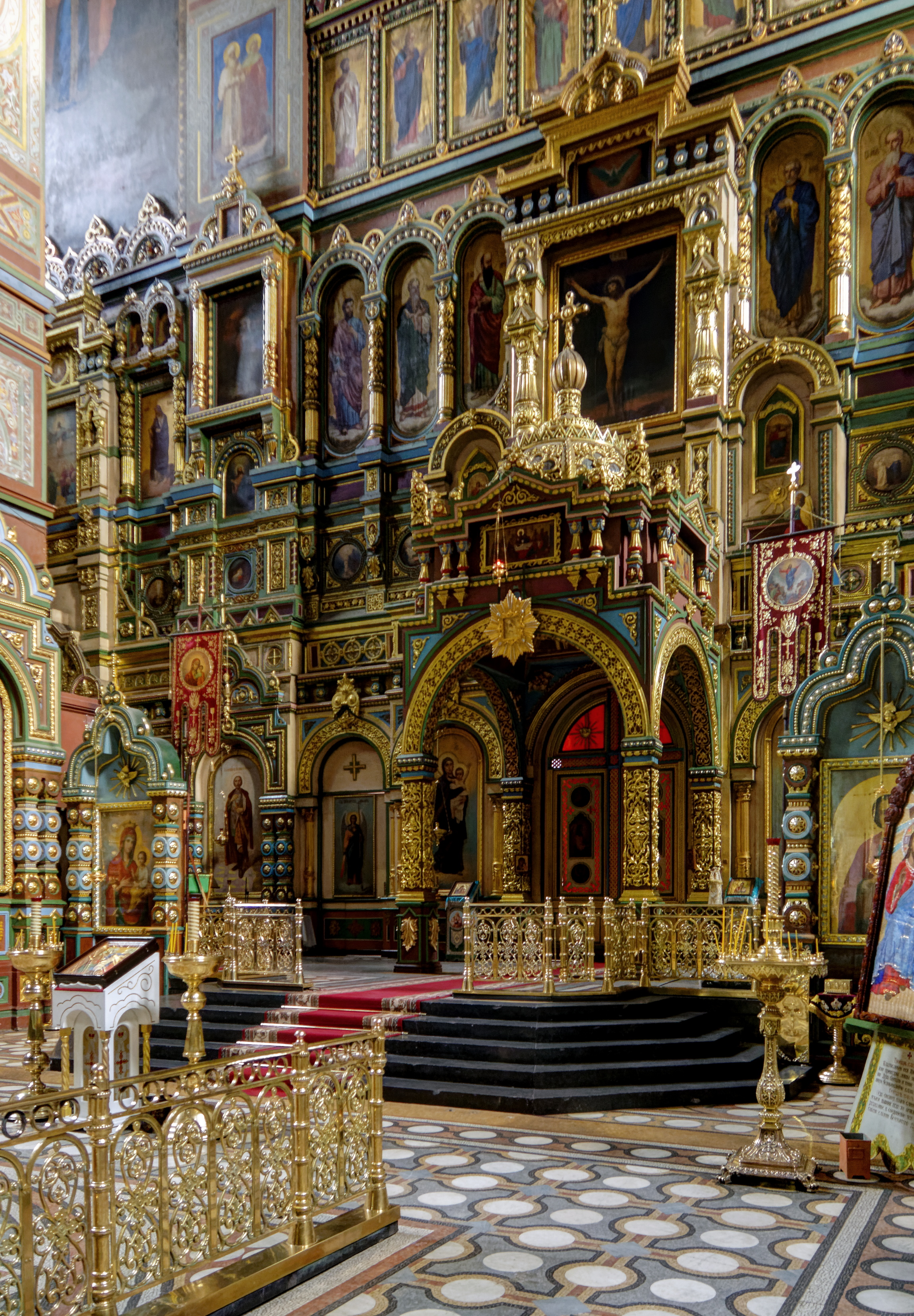 Yelets. Church of the Ascension